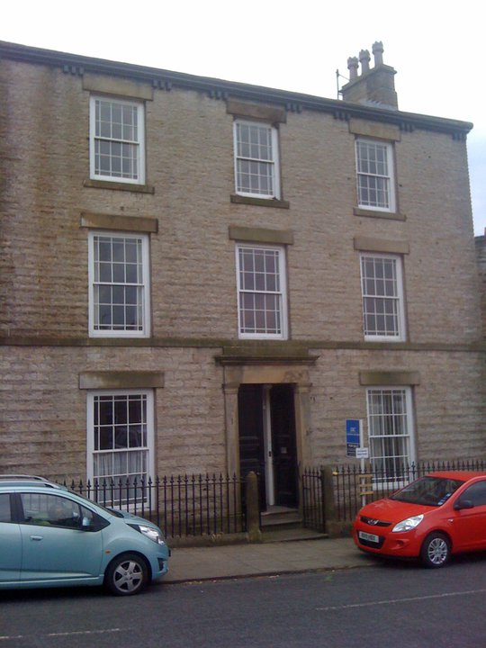 "Skeldale House", in Askrigg, North Yorkshire, is the home of the veterinary surgery in the 1970s and '80s UK television show All Creatures Great and Small.